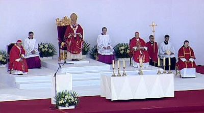 Pope Benedict XVI in Stara Boleslav (Czech Republic) 28 September 2009